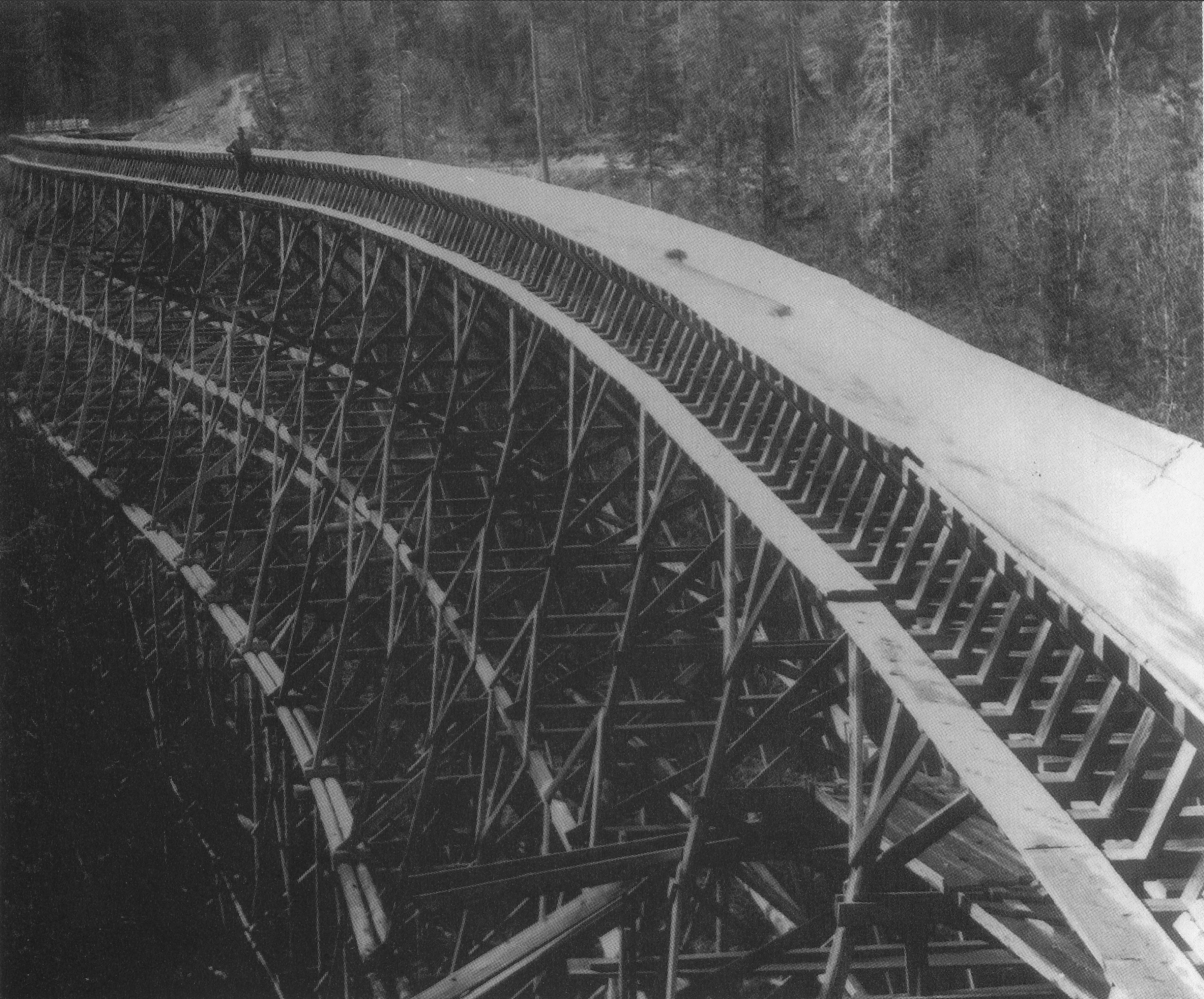 A flume used to transport logs to the Adams River, near Bear Creek, British Columbia